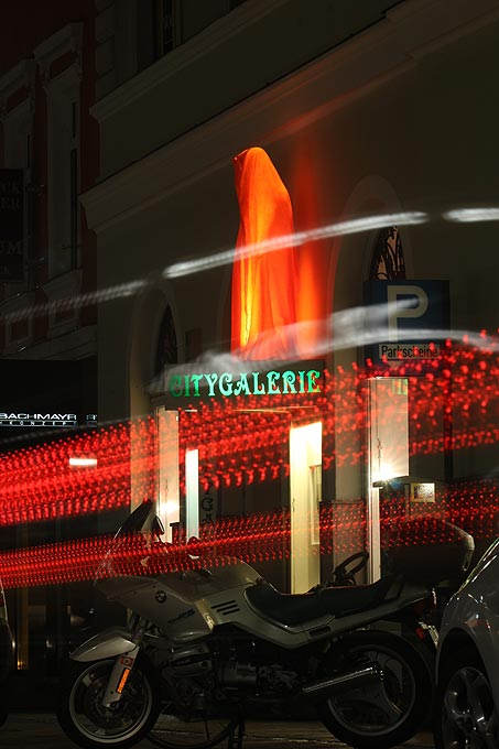 Sculpture "lightguard" from the series "guardian of the time" by Manfred Kielnhofer, shown during the Lightart Biennale Austria 2010 in Sep. 2010 in Linz